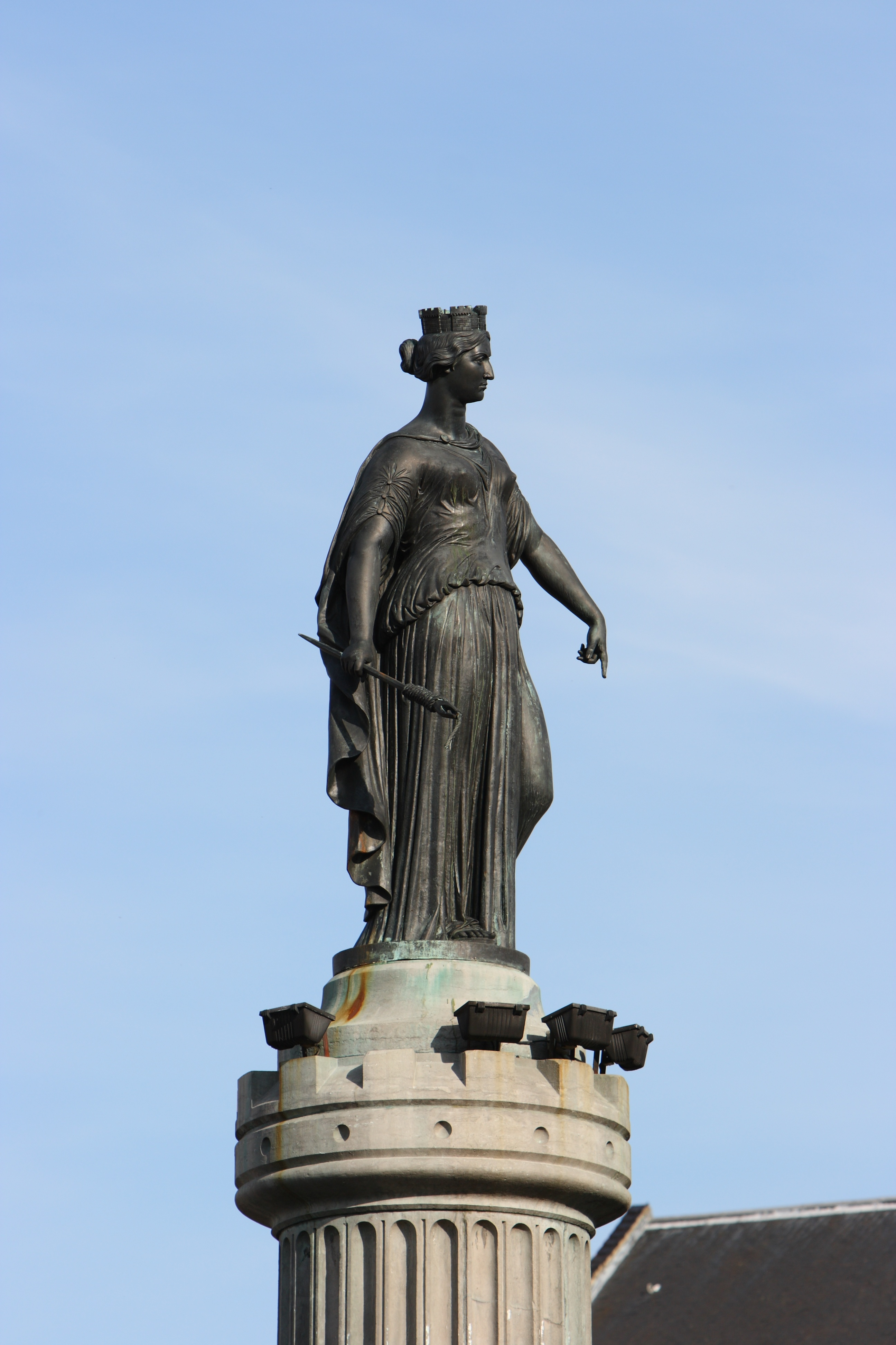 Column of the goddess, which stands on the Grand Place in Lille, France.